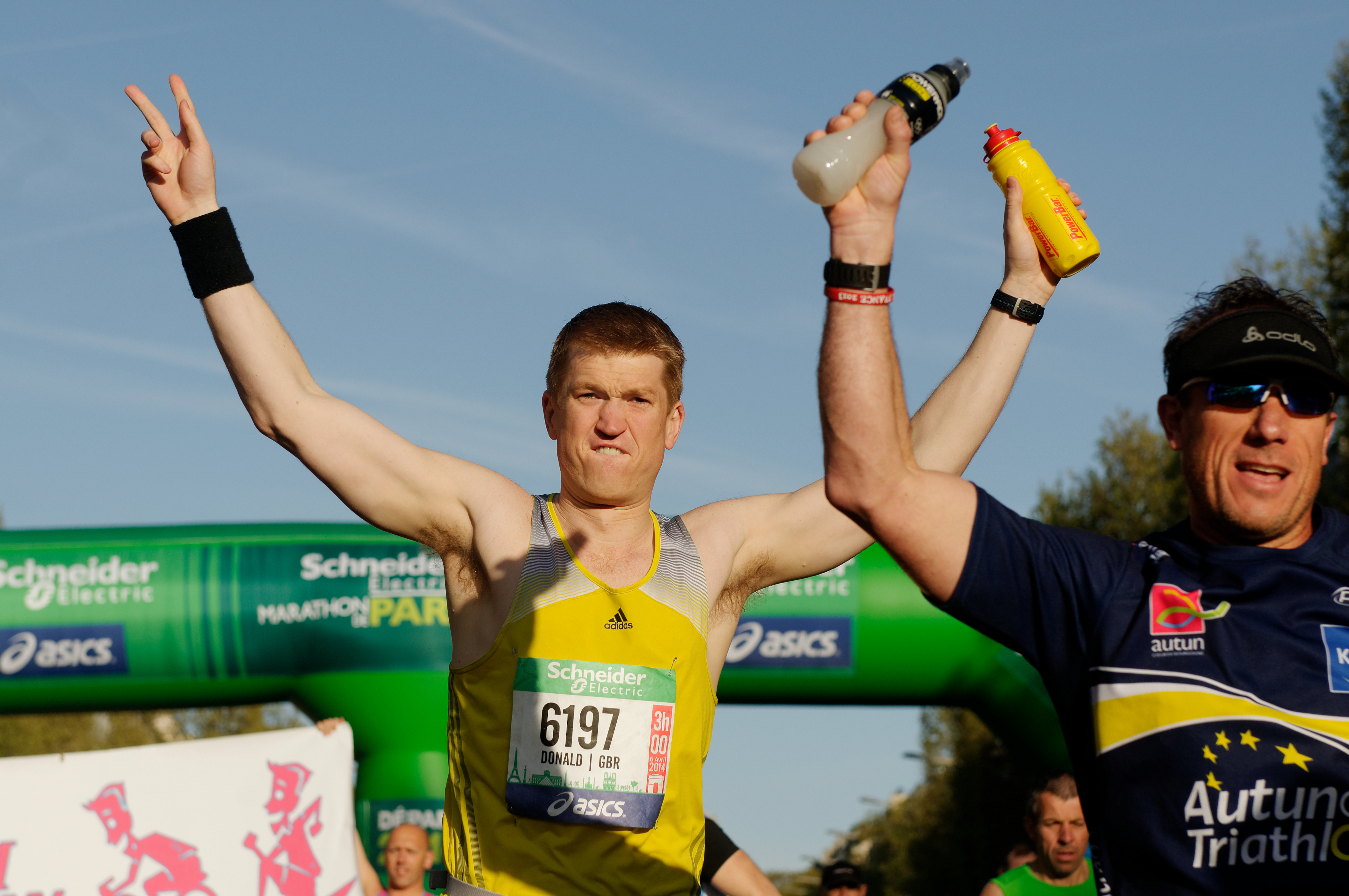 Start of the 2014 Paris Marathon.